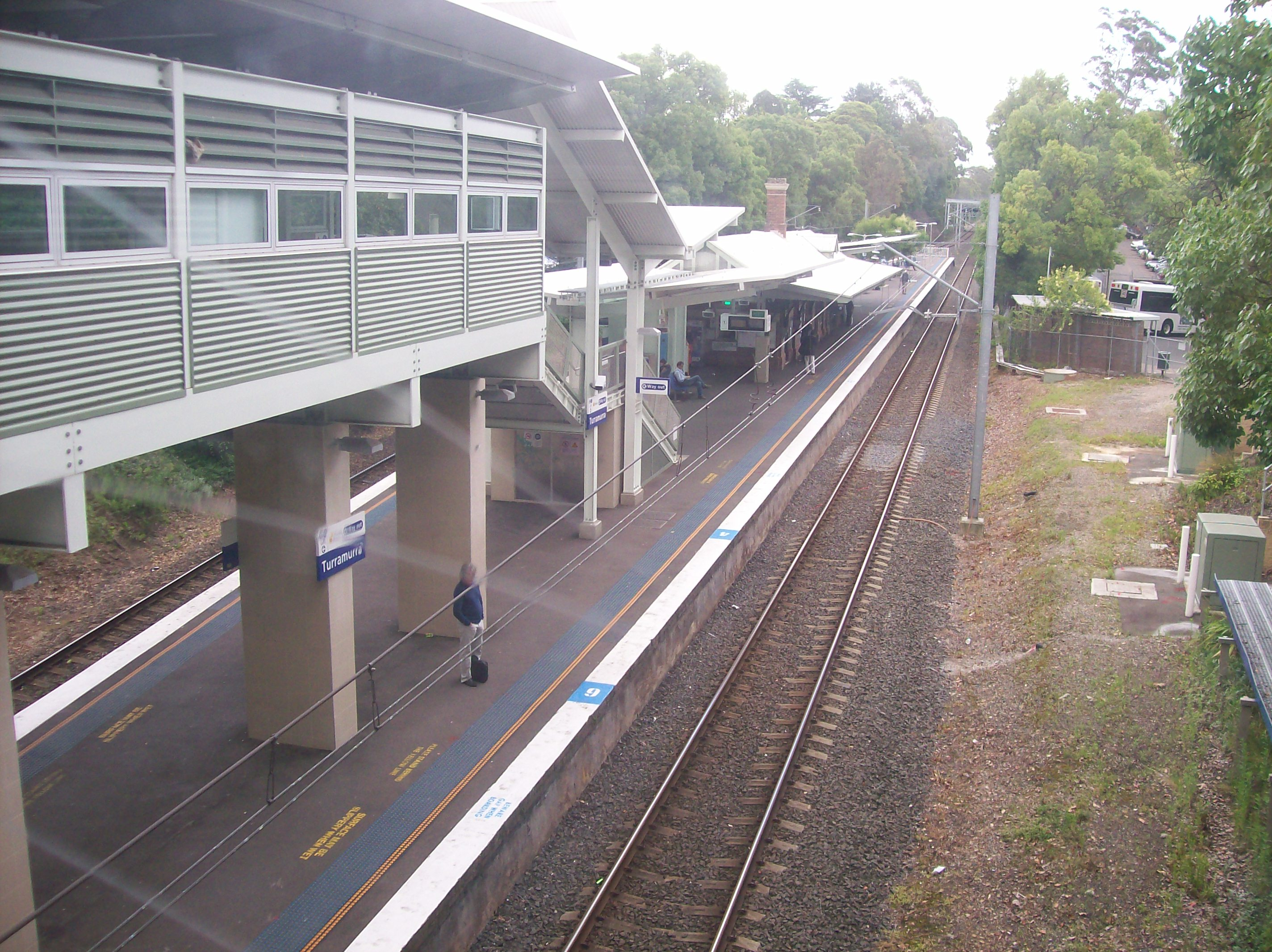 Turramurra railway station1